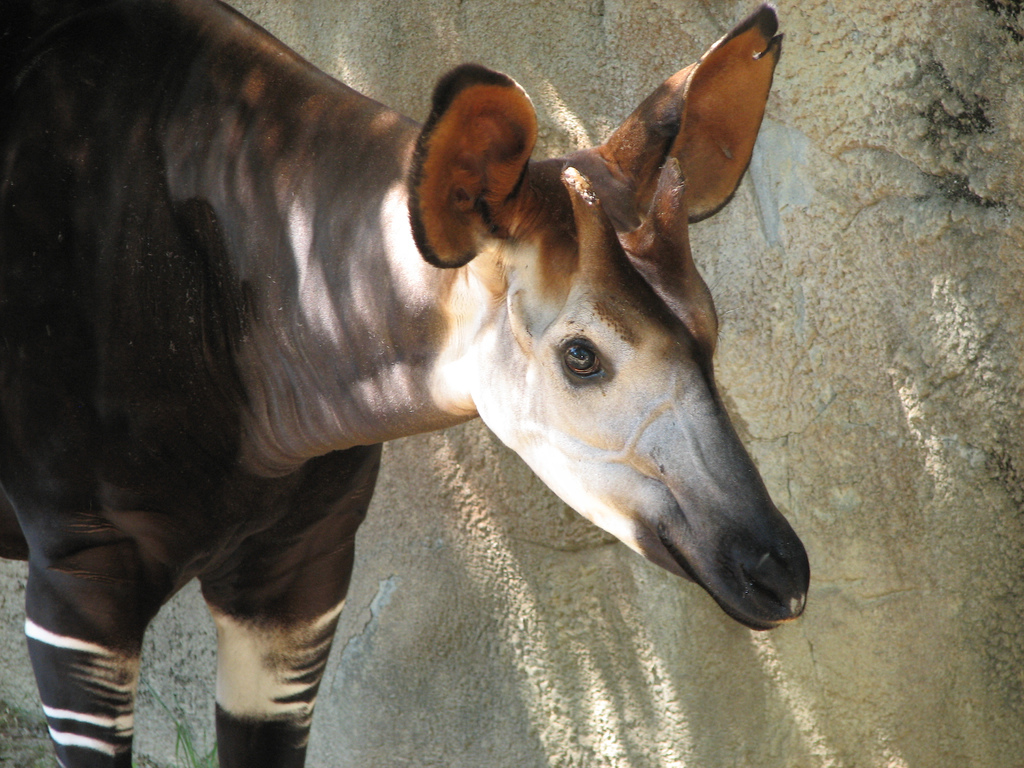 Okapi at Cincinnati Zoo